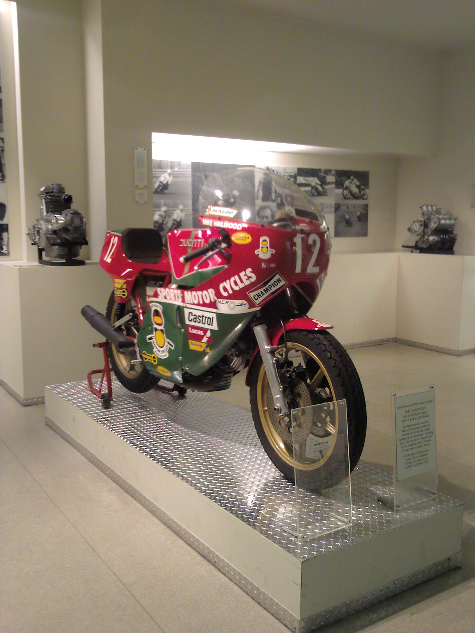 1978 Ducati 900 TT1. Mike Hailwood's race winning bike at Isle of Man Tourist Trophy and Mallory Park, on exibition at Museo Ducati, inside Borgo Panigale factory in Bologna, Italy.